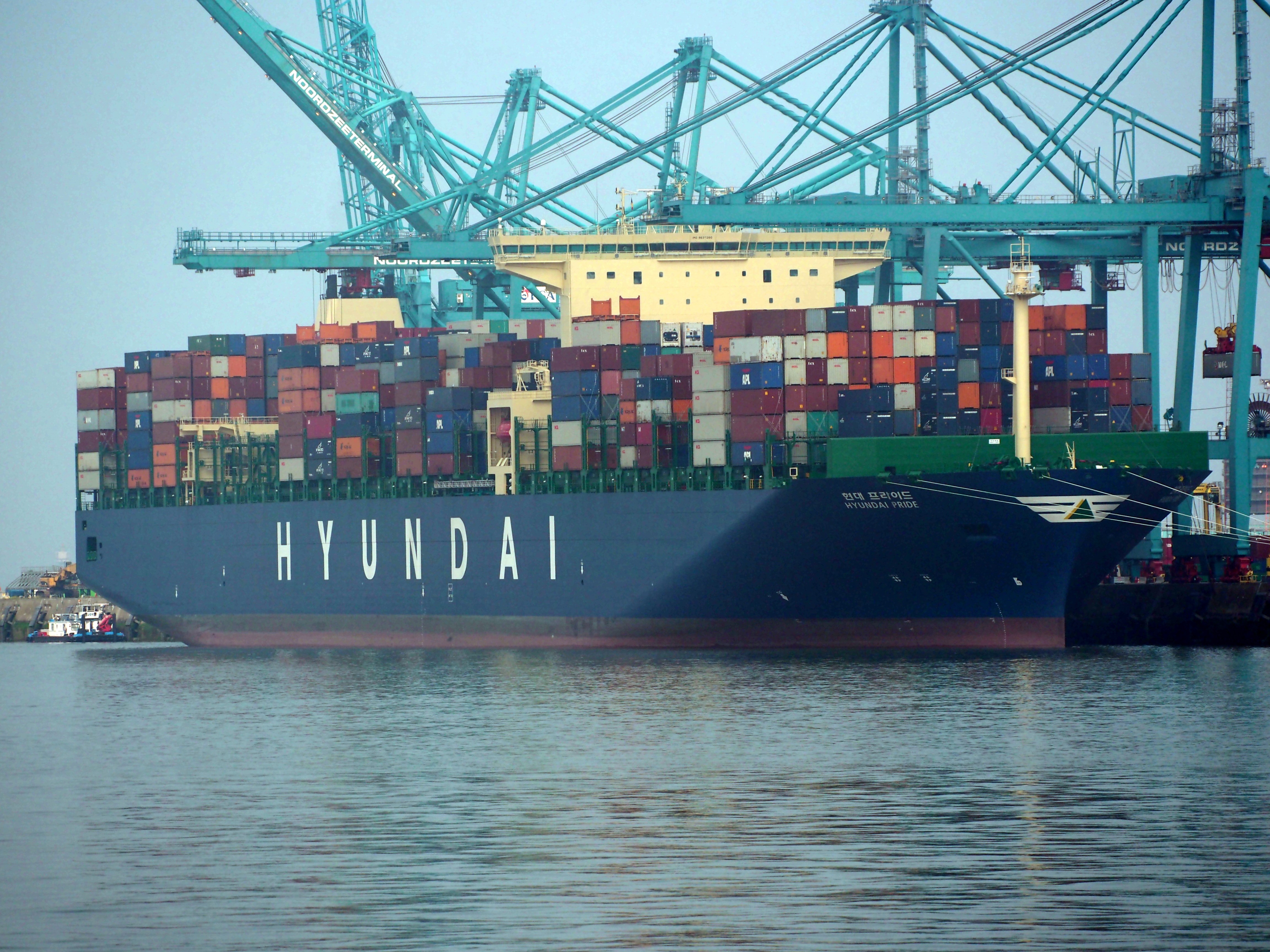 Photographed at the Port of Antwerp 2014, Belgium.